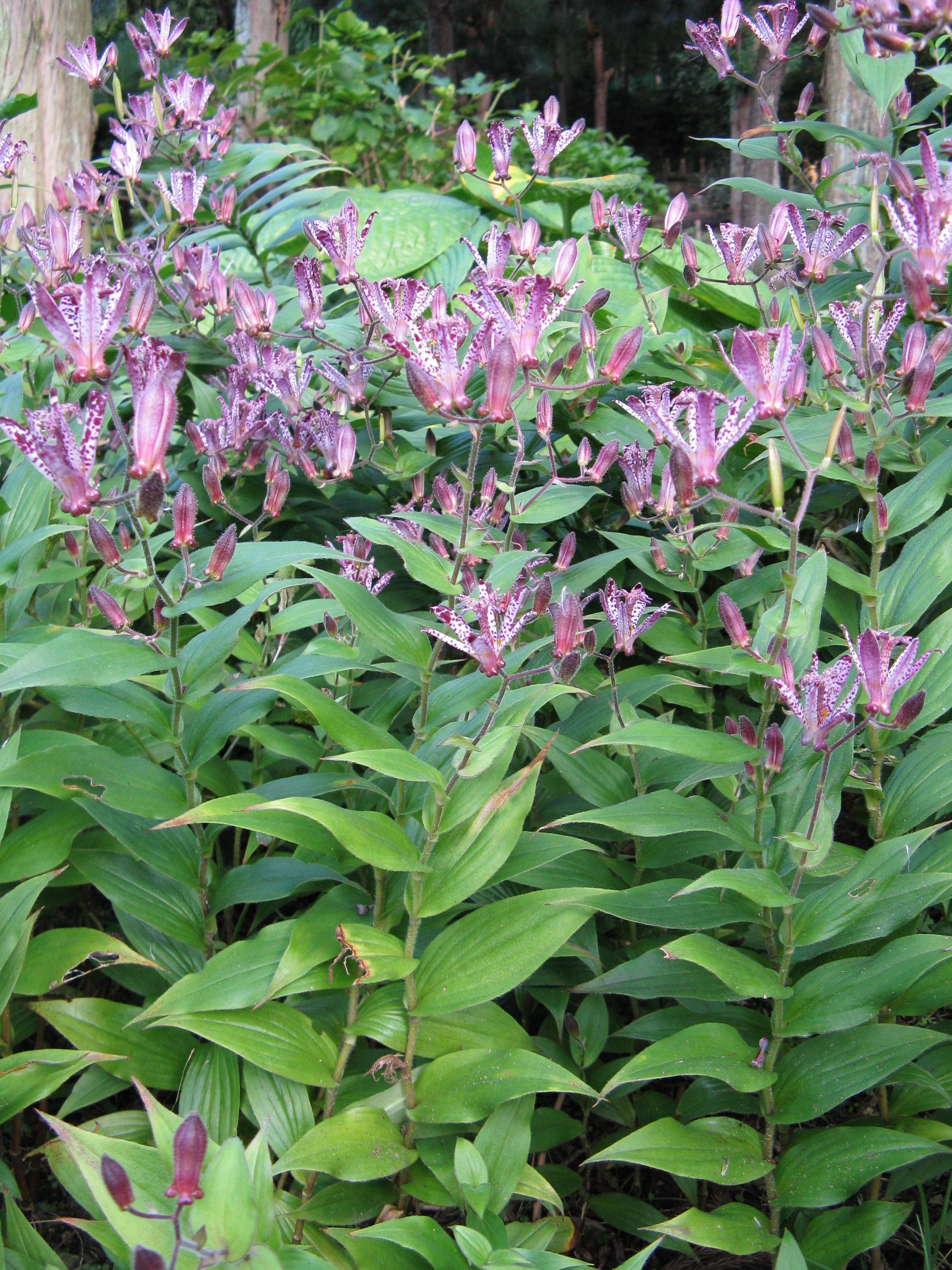 Tricyrtis 'Sinonome'